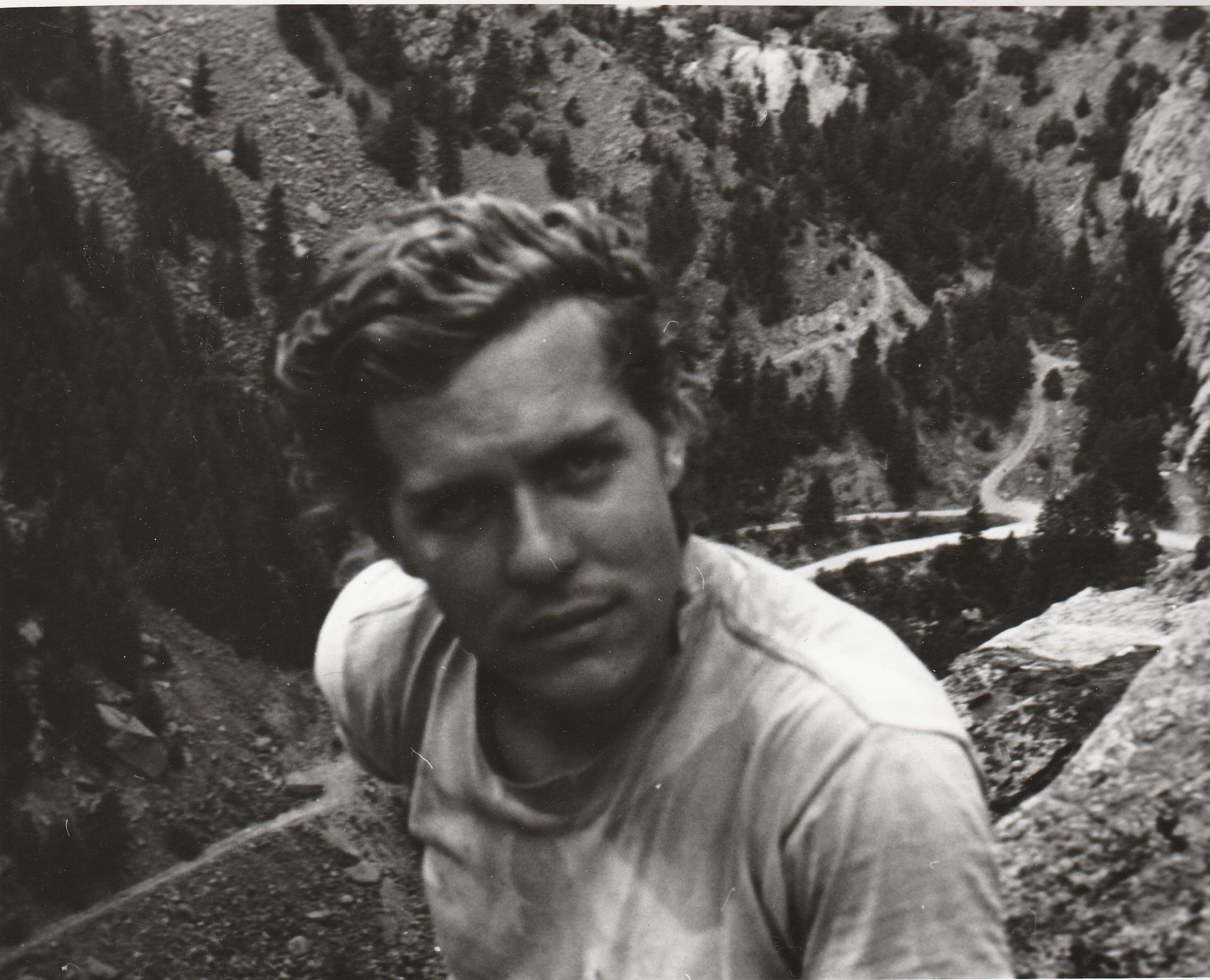 Pat Ament reaches the top of the climb "T2" in Eldorado Canyon, early 1970s. Photo by Pat Ament.